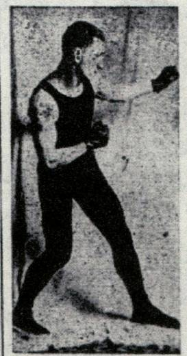 File is from newspaper Norwich Bulletin, pg. 3 dated 5-29-20 (Scanned)(US Public Domain by Definition)